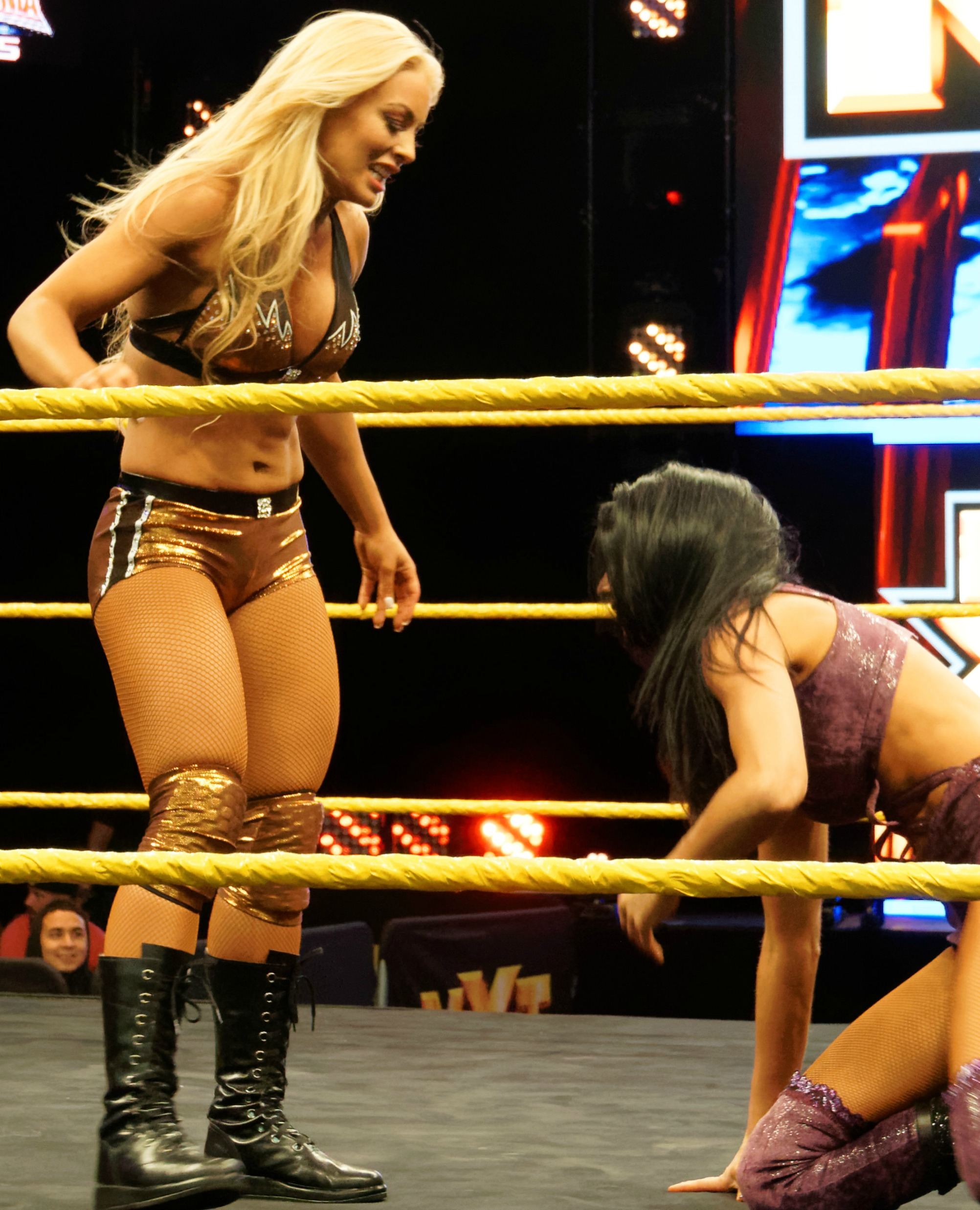 Mandy Rose during a wrestling match against Billie Kay at WrestleMania 32 Axxess in April 1, 2016.